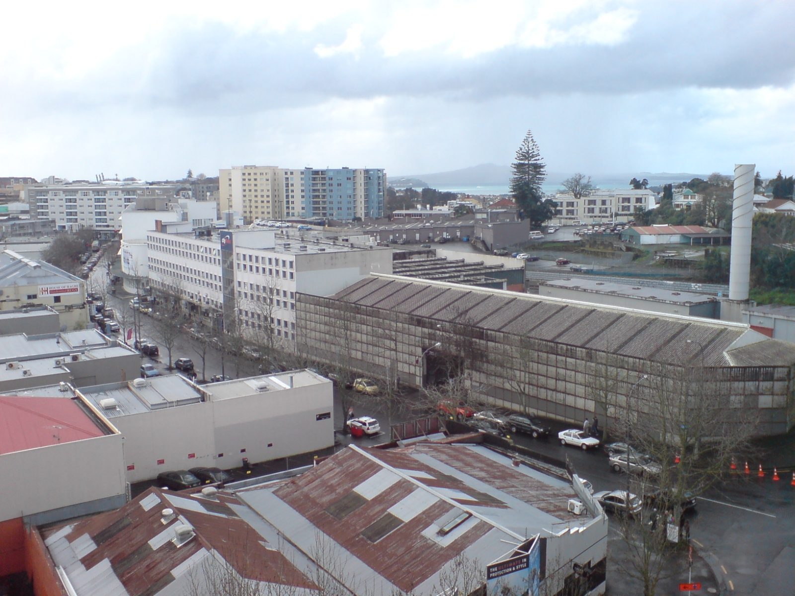 Looking over the south end of Nuffield Street in Newmarket, Auckland City, New Zealand. From the new southbound Newmarket Viaduct on Open Day. The big chimney is possibly the air extraction exhaust of the Vector Cable Tunnel Auckland (formerly known as the Mercury Cable Tunnel), or alternatively, the exhaust of a local peak-load gas power plant. I have heard both, but am unsure.